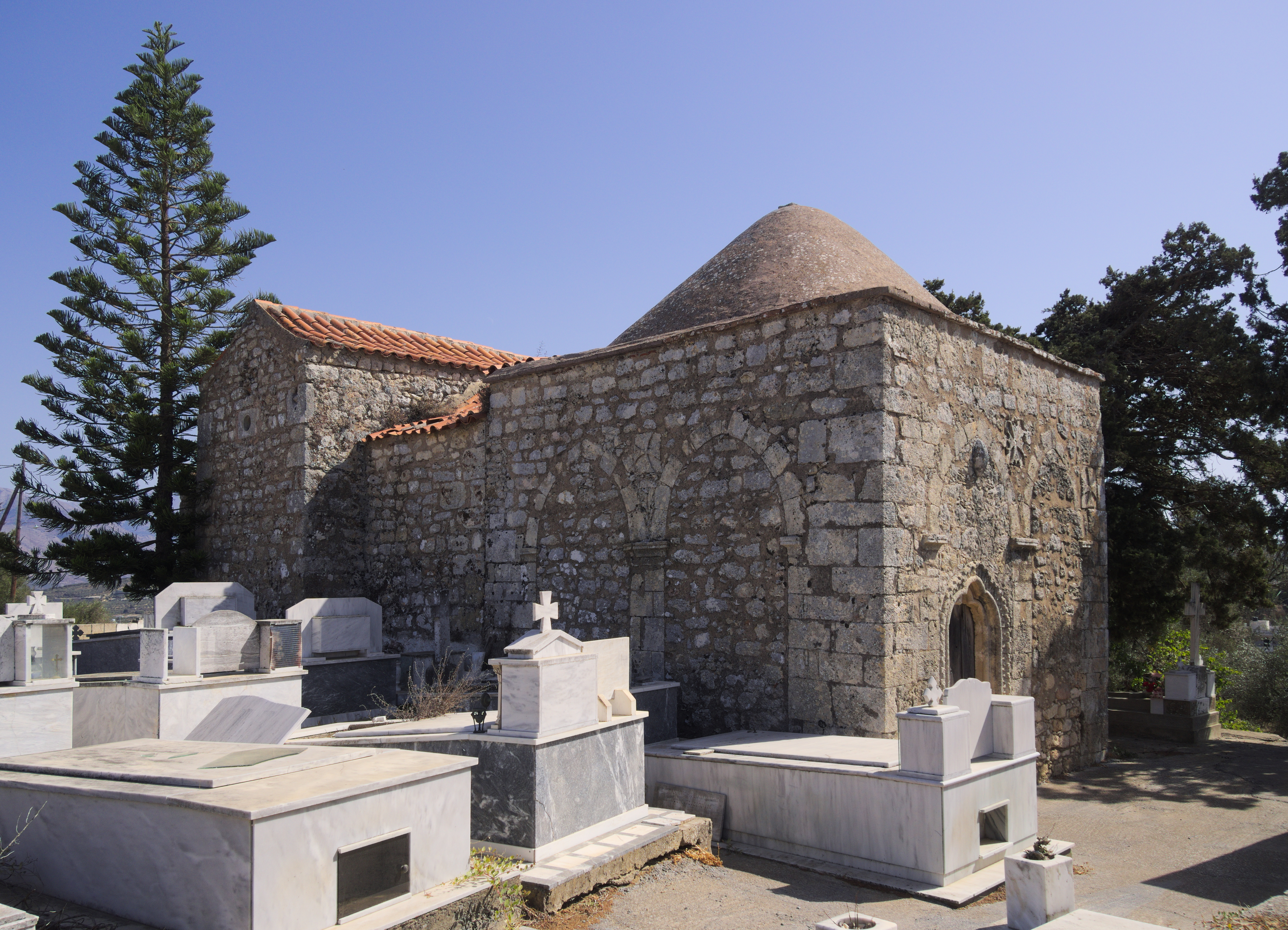 The byzantine church of Archagel Michael at the cemetary of Arkalochori, Crete.